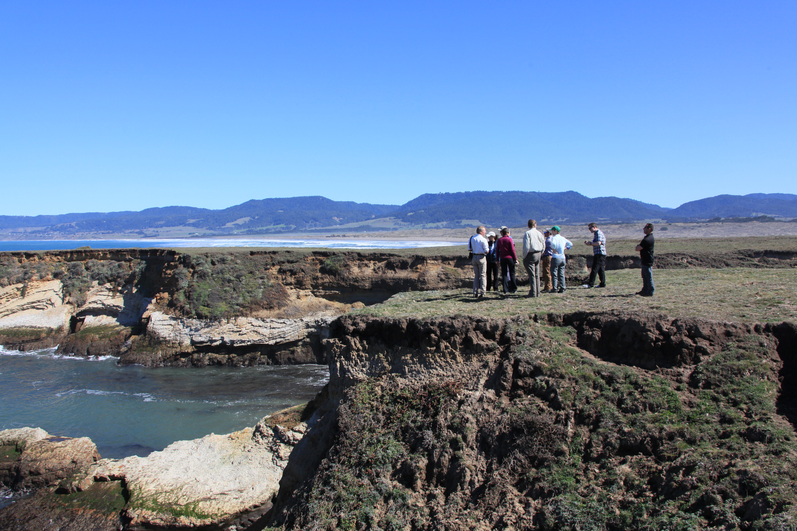 Secretary of the Interior Sally Jewell joined with hundreds of community members to celebrate President Obama’s designation of the Point Arena-Stornetta Public Lands as part of the California Coastal National Monument. The President’s action establishes the first shoreline addition to monument, protecting approximately 1,665 acres of public lands. The celebration took place near the historic lighthouse at Point Arena, a destination for an estimated 40,000 people every year who come to enjoy the spectacular views along the Mendocino coastline in Northern California. Secretary Jewell was joined by Bureau of Land Management Principal Deputy Director Neil Kornze, White House Council on Environmental Quality Acting Chair Mike Boots, and local community and business leaders.